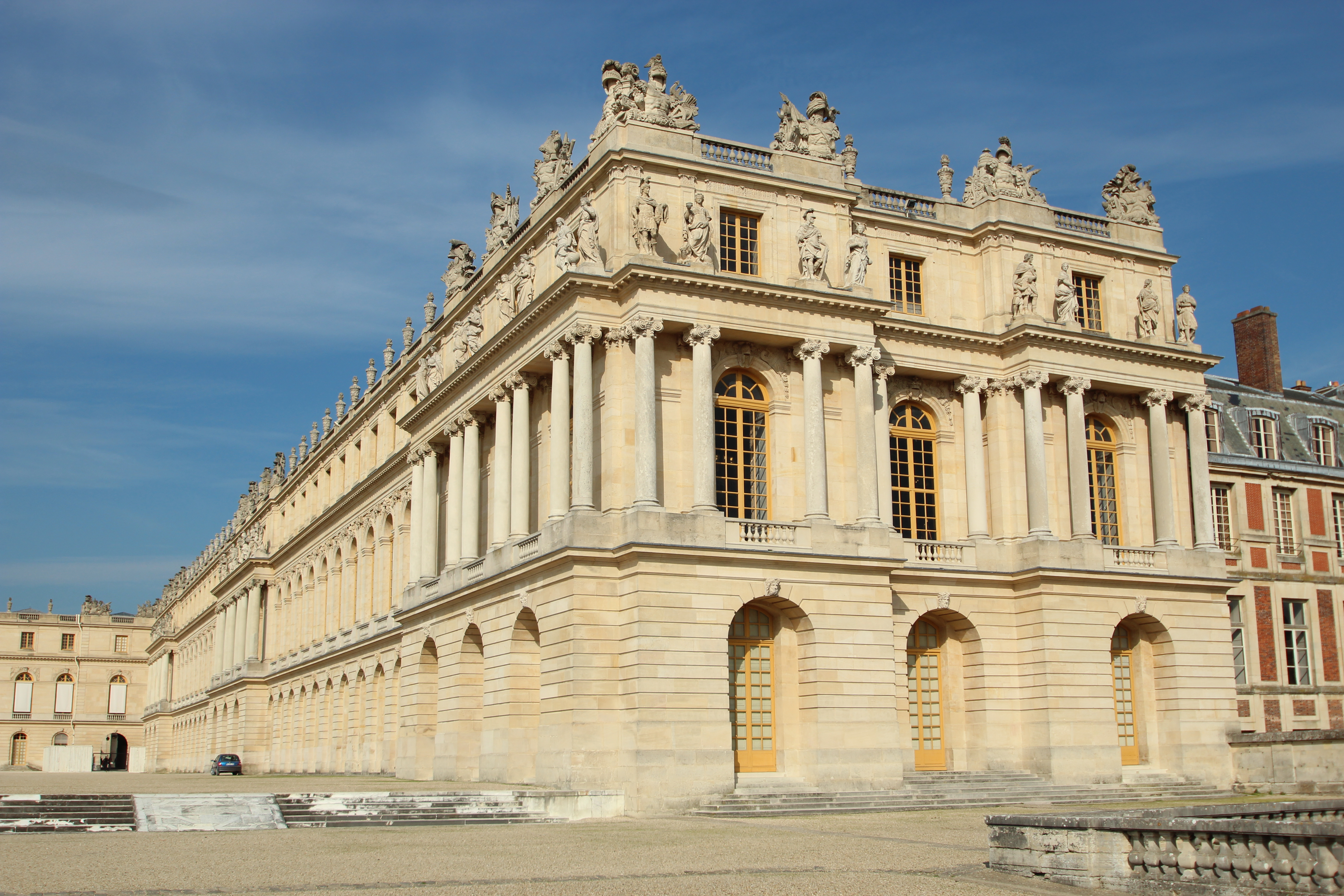 Aile du Midi (South Wing) in the Palace of Versailles, France. Object location48° 48′ 10.19″ N, 2° 07′ 13.55″ E .